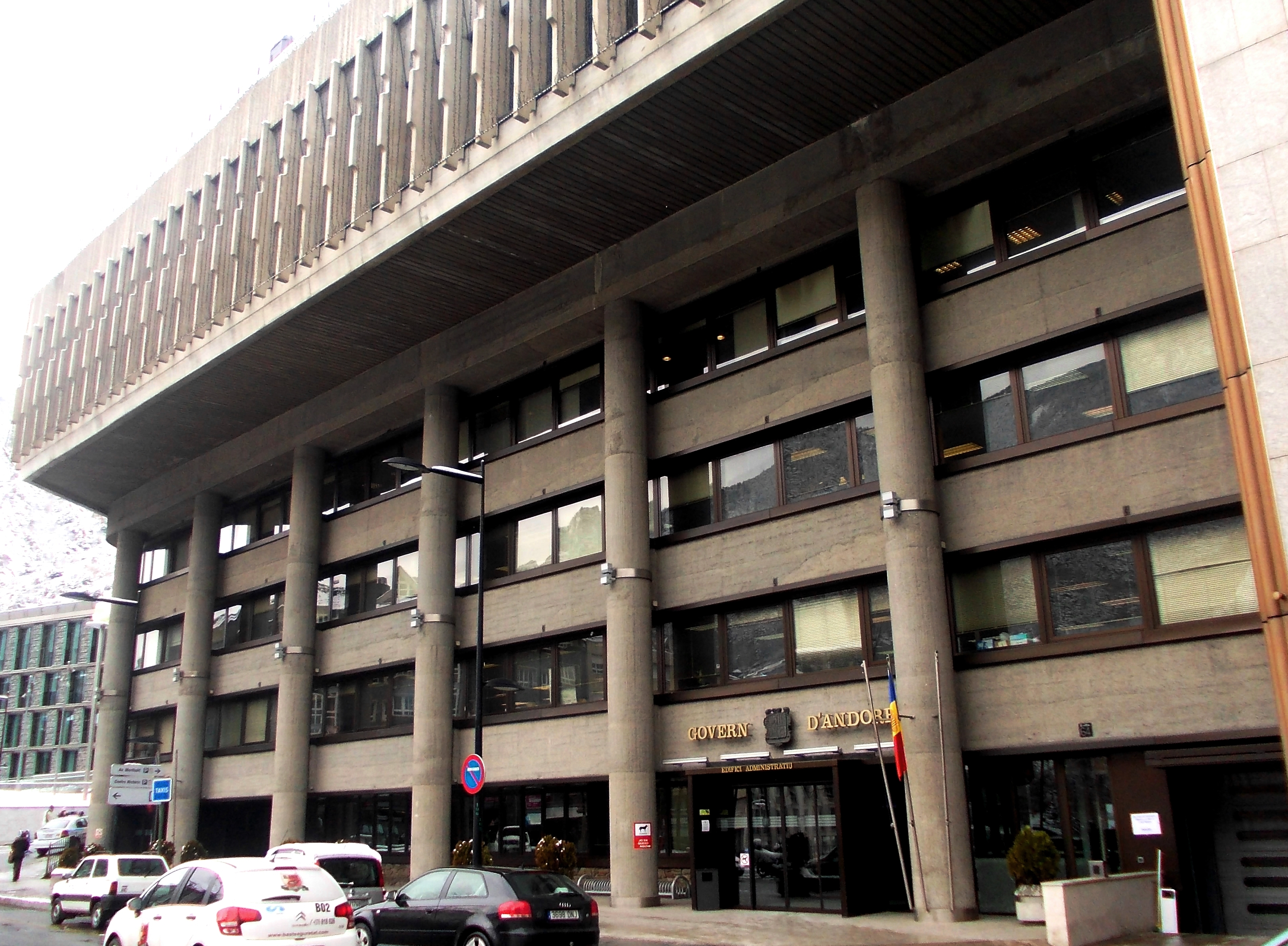 Government of Andorra